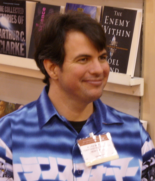 A. Lee Martinez accepts an Alex Award for his first published novel, "Gil's All Fright Diner"